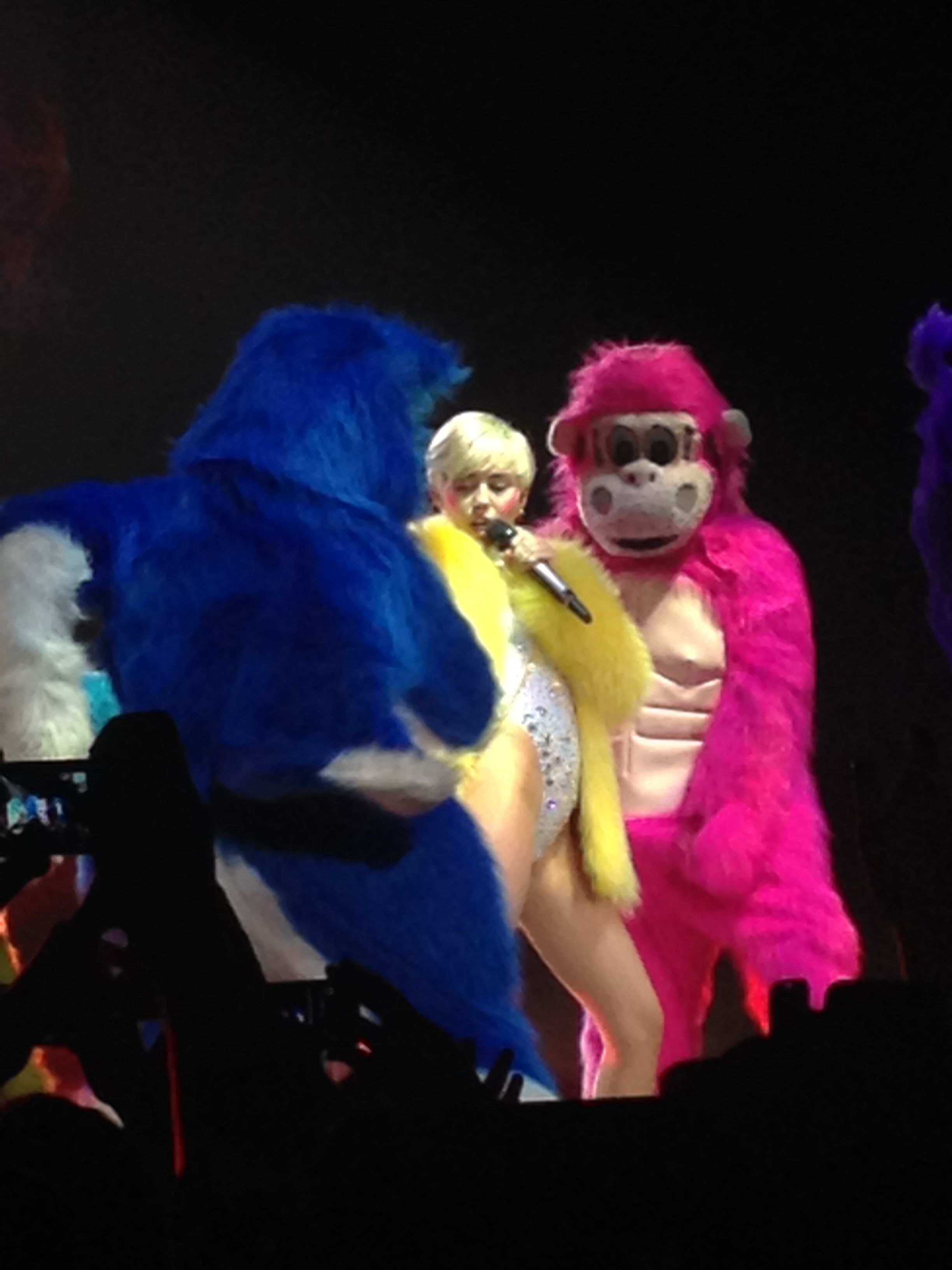 Miley Cyrus performing her song "On My Own" in Amsterdam on June 22nd.